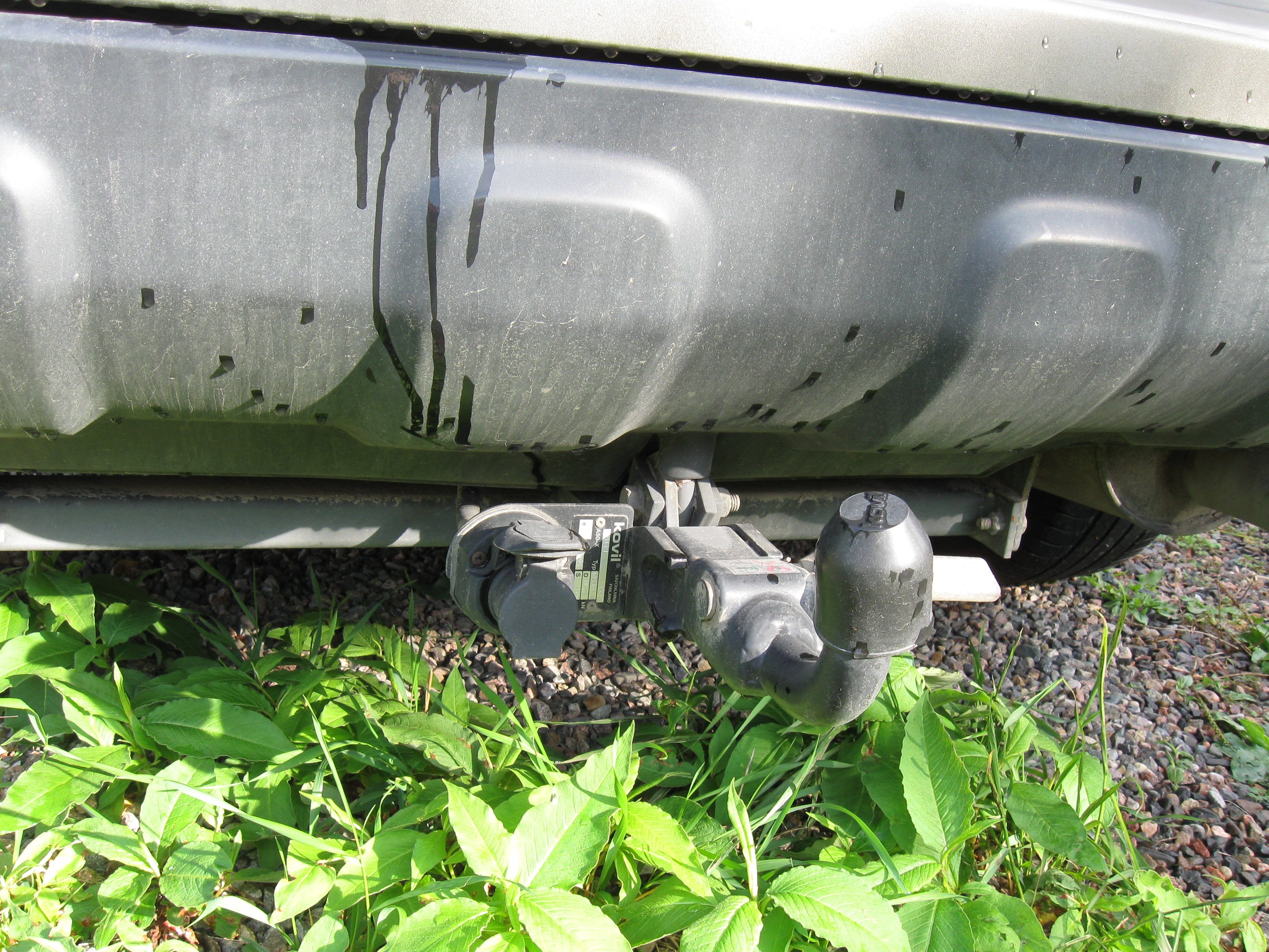 A removable towing hook for a passenger car made by the Finland-based company Kovil.